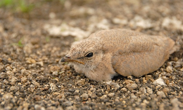 Chick - Small Pratincole (Glareola lactea)